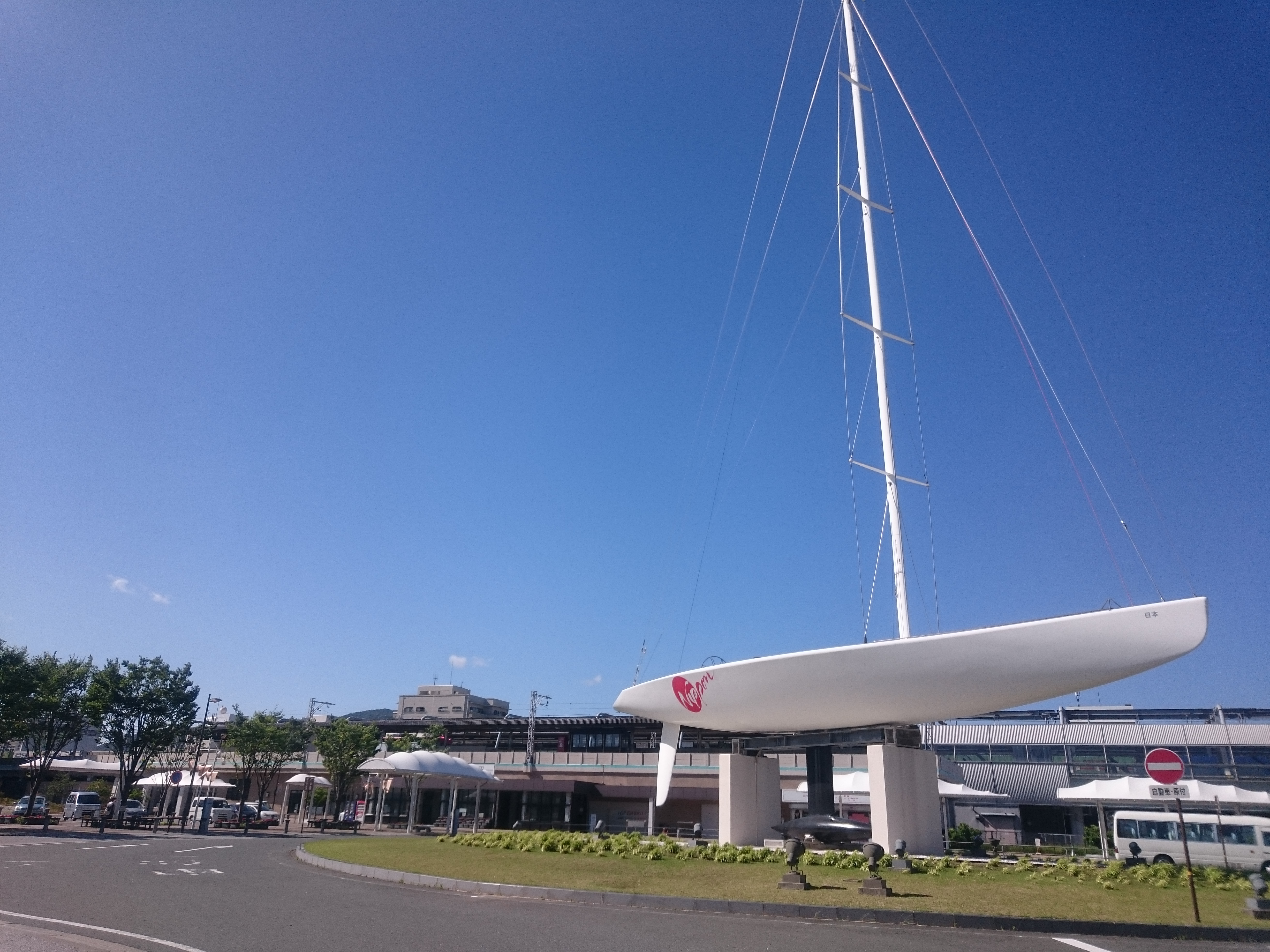 Gamagori Station (蒲郡駅), located in Gamagori, Aichi, Japan Sony Xperia Z3